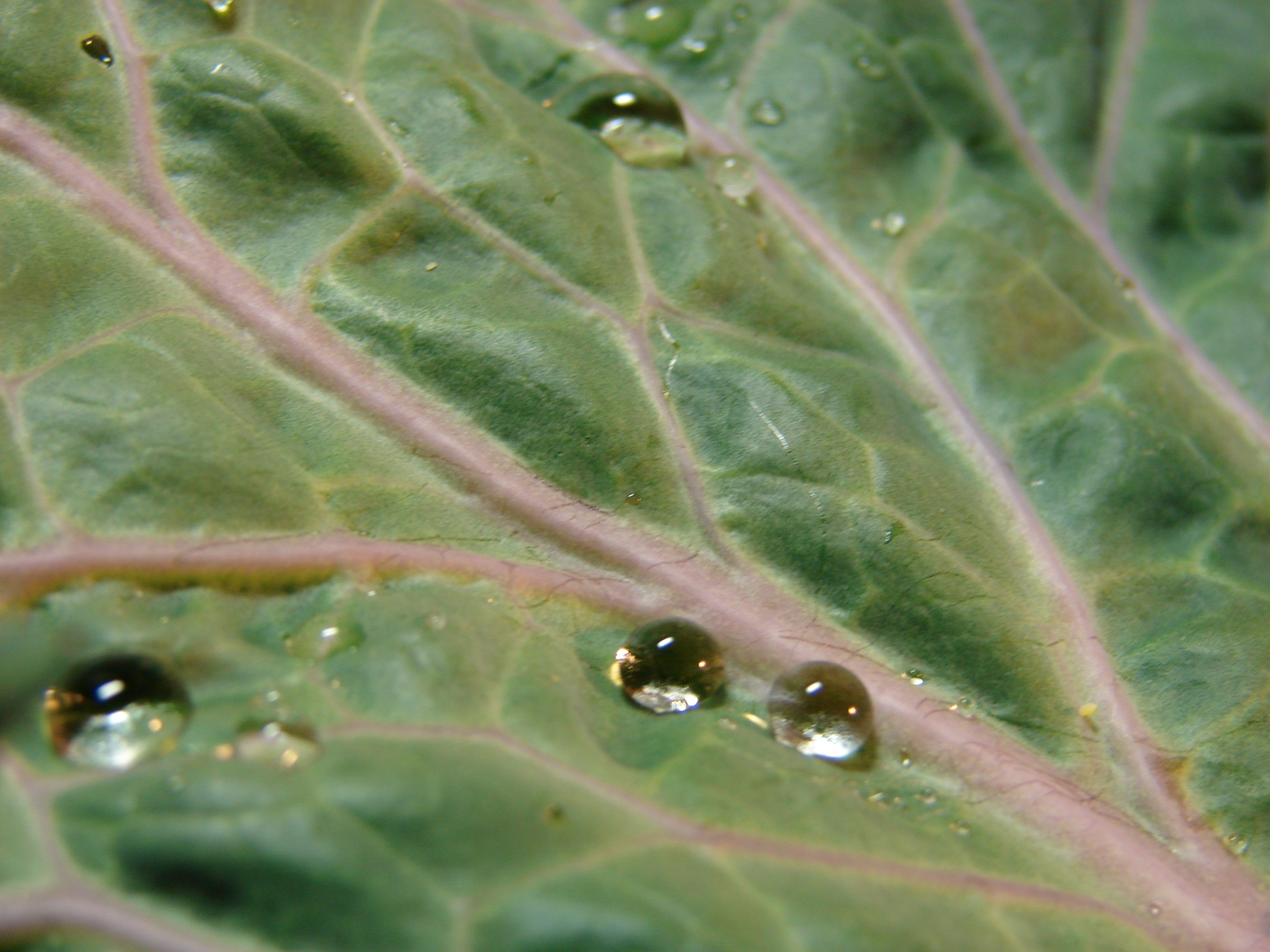 Picture taken by me in September, 2006.